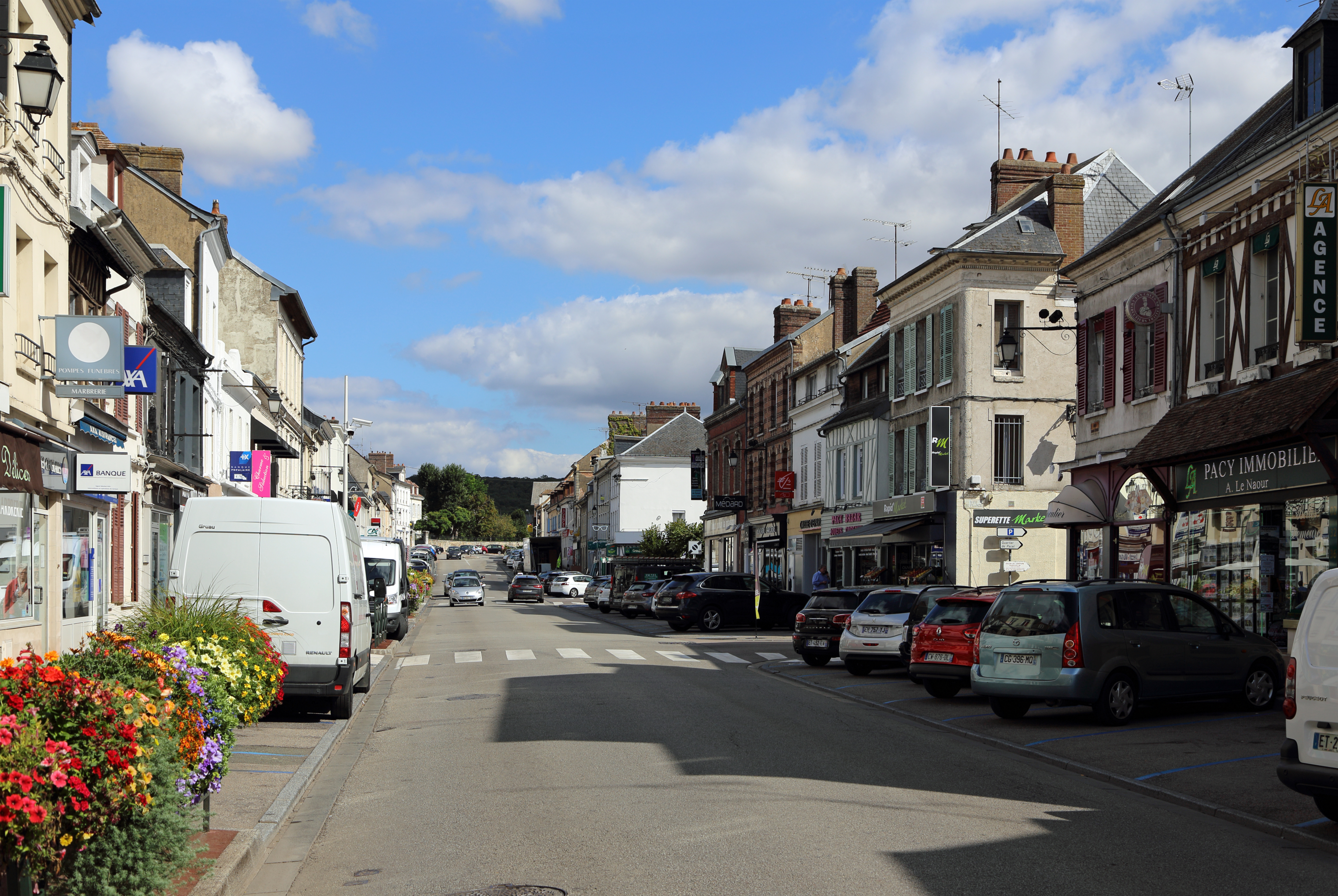 Pacy-sur-Eure (Eure department, France): the Rue Édouard Isambard